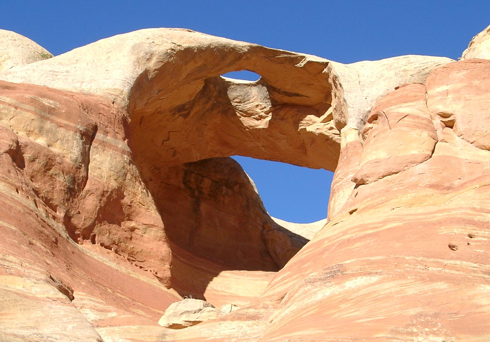 Bridge Arch in Rattlesnake Canyon, Colorado. Taken 9/14/01 by User:Pretzelpaws with a Casio QV-3000EX camera. Cropped 10/27/05 using the GIMP.